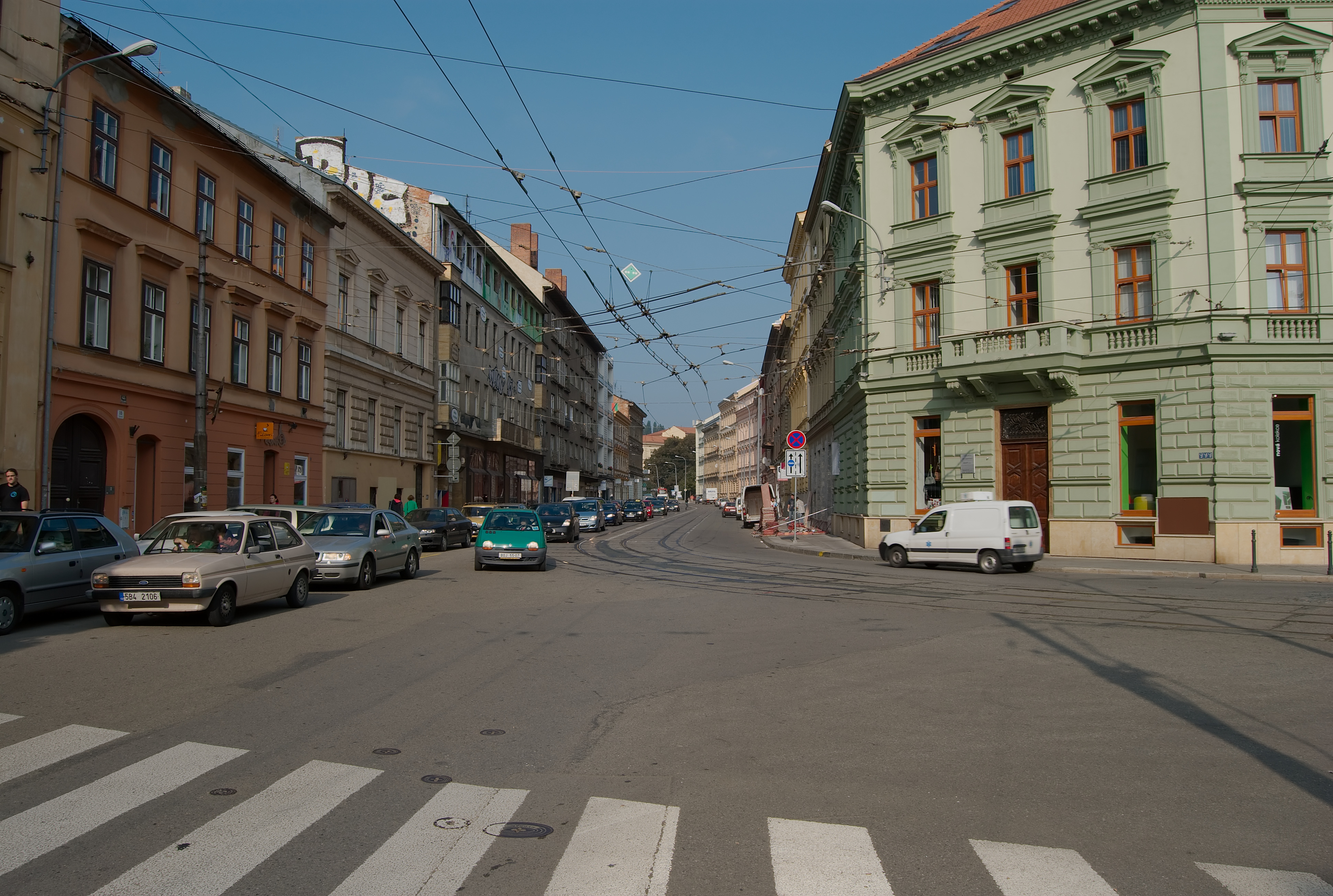 Brno - part of Údolní street in the area of former village of Švábka